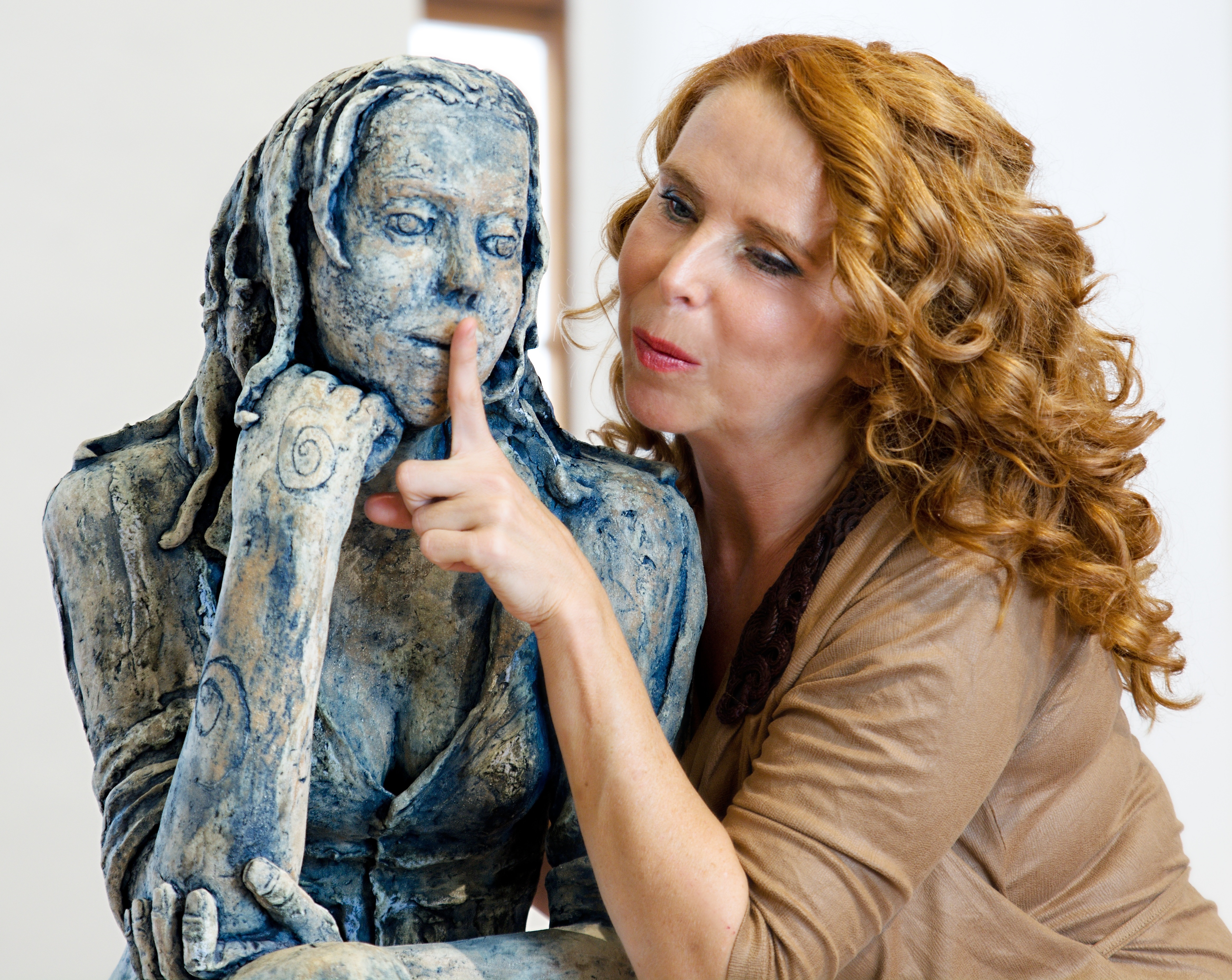 Sculptor Marianna with her statue "Tell me, I'm listening"